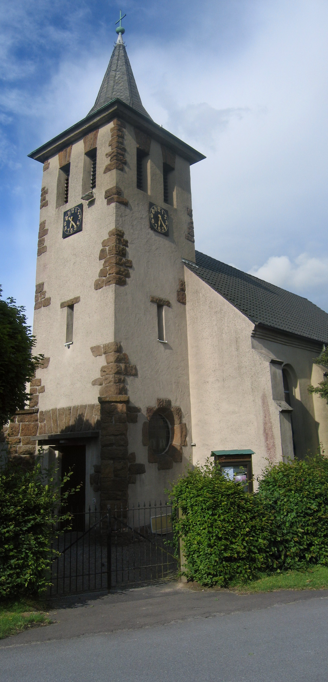 Saint John church in Rödinghausen, District of Herford, North Rhine-Westphalia, Germany.